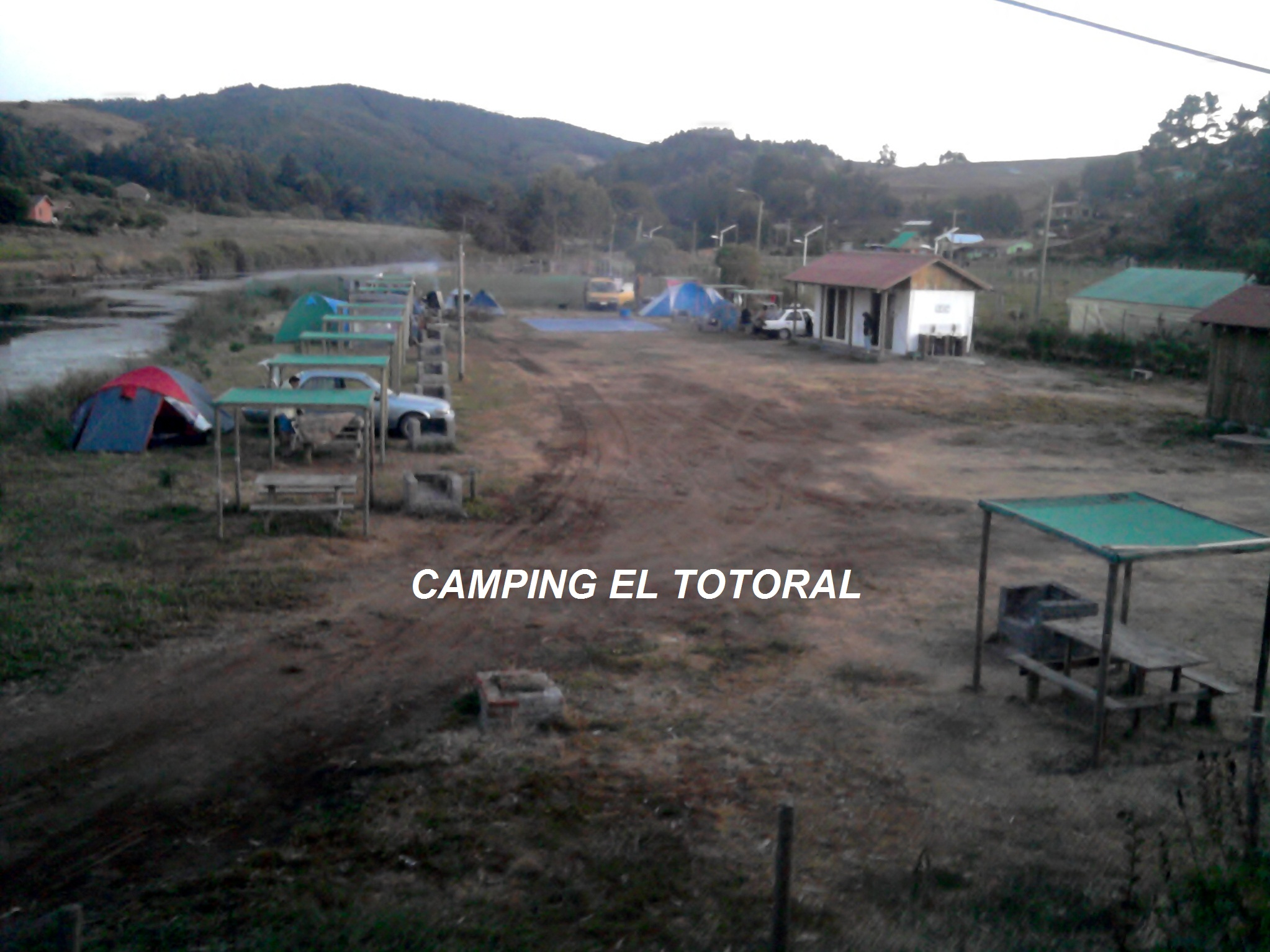 Camping el Totoral, ubicado a 1 km. aprox. al norte de la plaza de Duao.